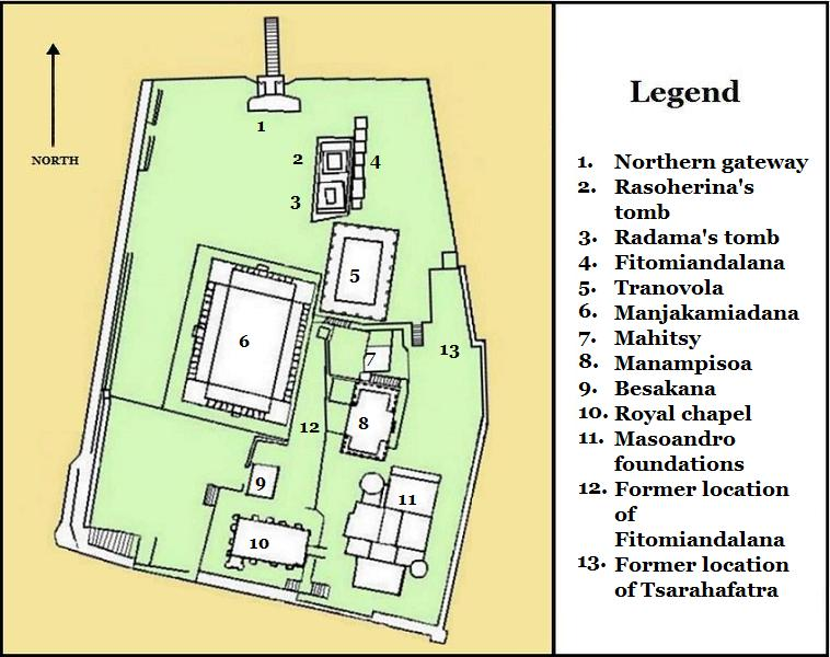 Map of the layout of buildings in the Rova compound of Antananarivo, Madagascar, circa 1990